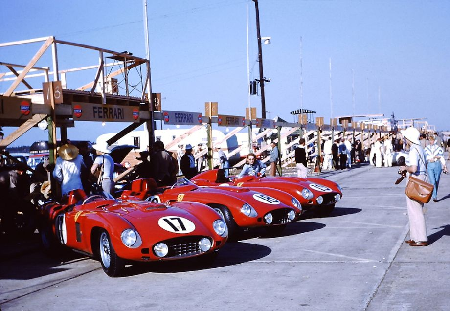 Three Ferraris at Sebring 12 hours on 24 March 1956. #17 is the 1956 Ferrari 860 Monza s/n 0604M (WINNER, Juan Fangio and Eugenio Castellotti) #18 is the 1956 Ferrari 860 Monza s/n 0602M (2nd place, Luigi Musso and Harry Schell) #19 is the 1955 Ferrari 857 Sport s/n 0578M (Did Not Finish, Alfonso de Portago Not sure if any of the drivers are in this picture.[1]